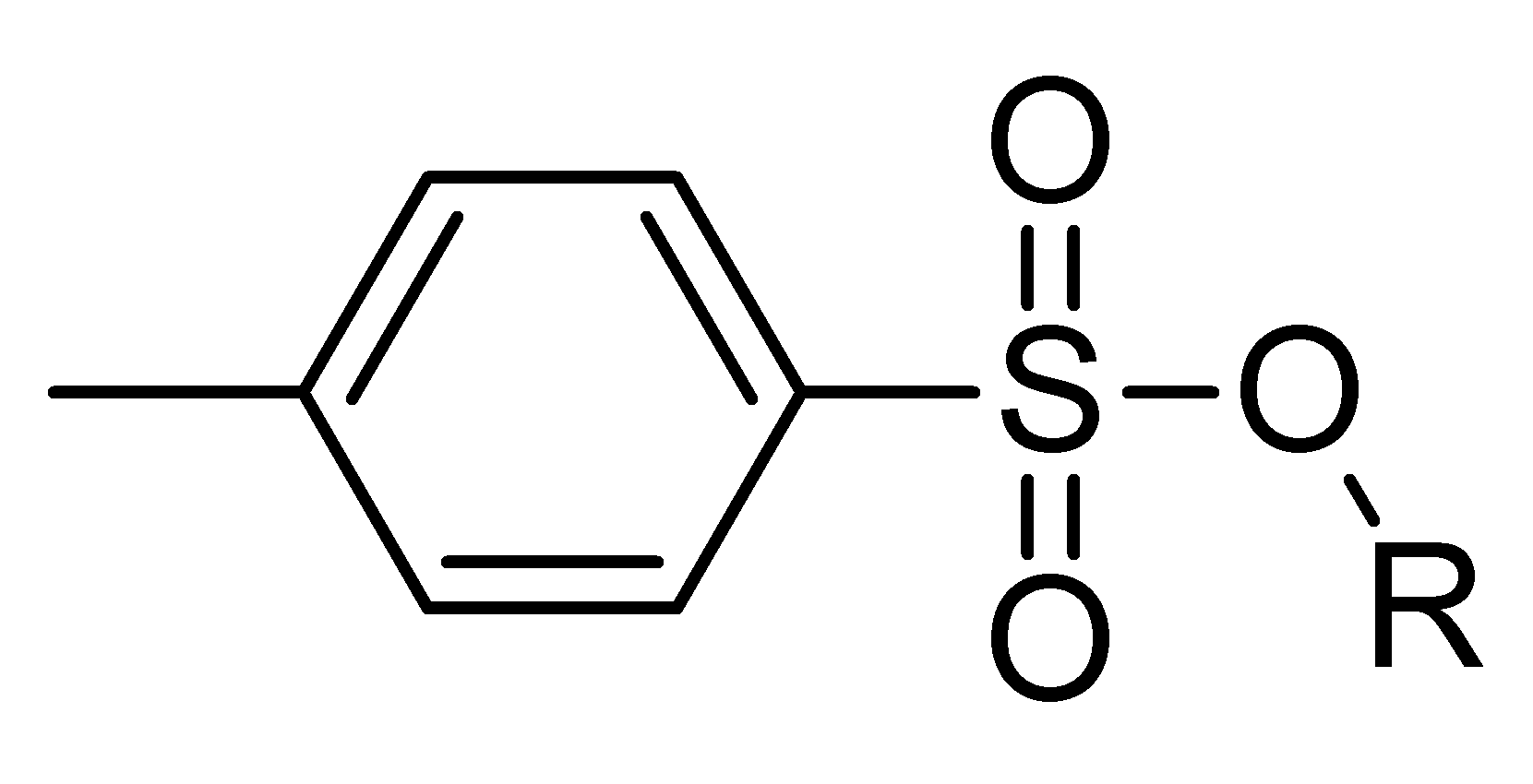 Tosyl group. released into the public domain.